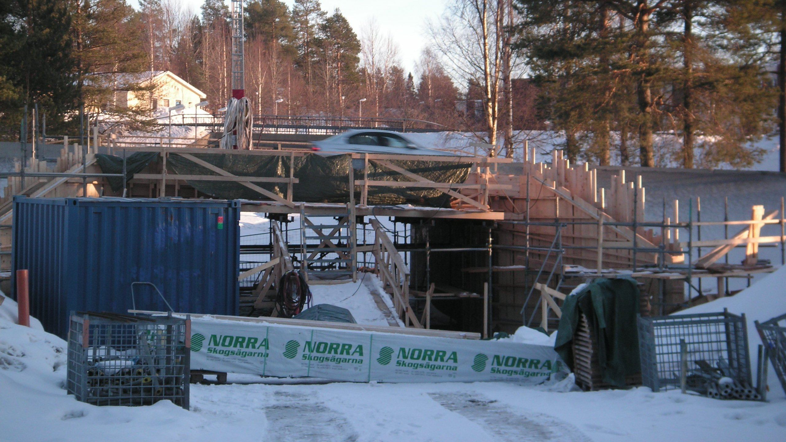 Maintenance (extension) of walk/bicycle tunnel crossing under Kolbäcksvägen, Umeå, Sweden.